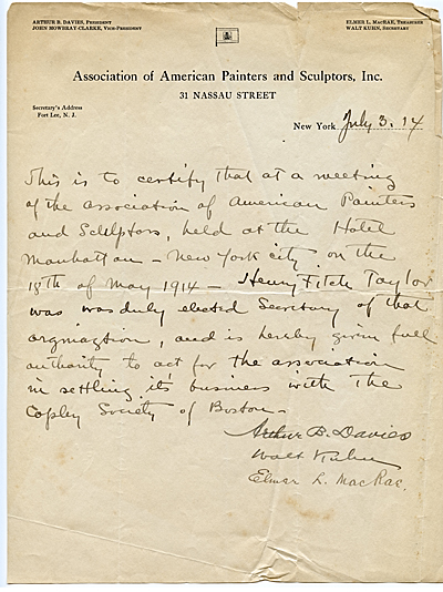 Memorandum certifying Henry Fitch Taylor as Secretary of the Association of American Painters and Sculptors, 1914 July 3, signed by Arthur B. Davies, Walt Kuhn, and Elmer L. MacRae. From the Virginia Teague papers relating to the Armory Show, Archives of American Art, Smithsonian Institution.